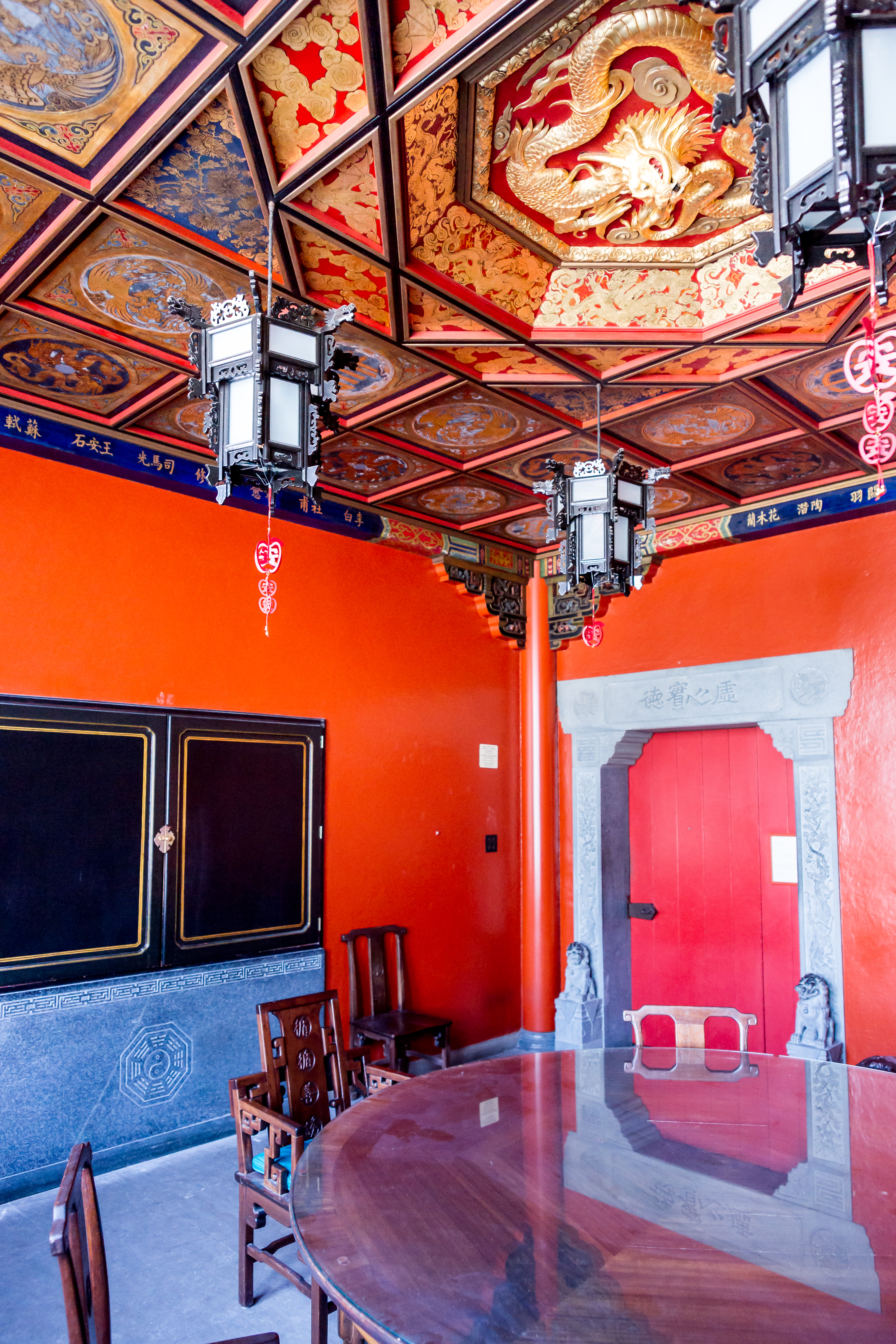 Chinese Nationality Room in the Cathedral of Learning at the University of Pittsburgh